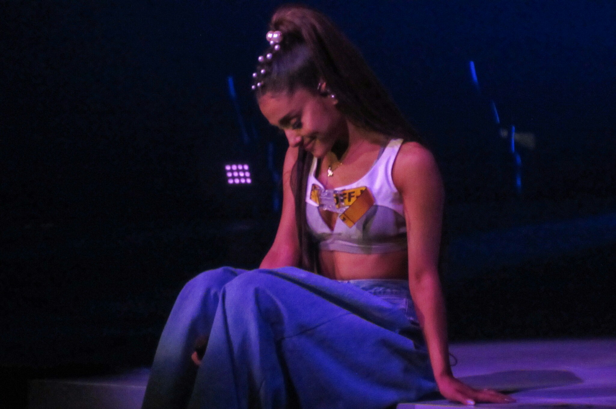 Ariana Grande performing the song "Thinking Bout You" during Dangerous Woman Tour on February 19, 2017.